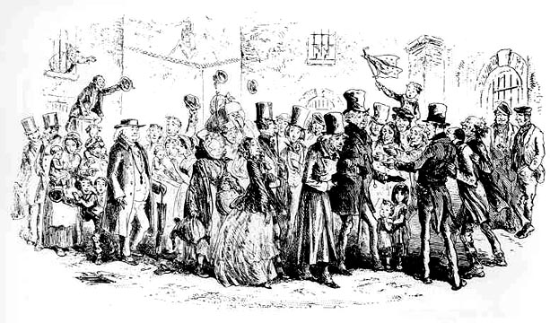 Illustration for Little Dorrit by Phiz